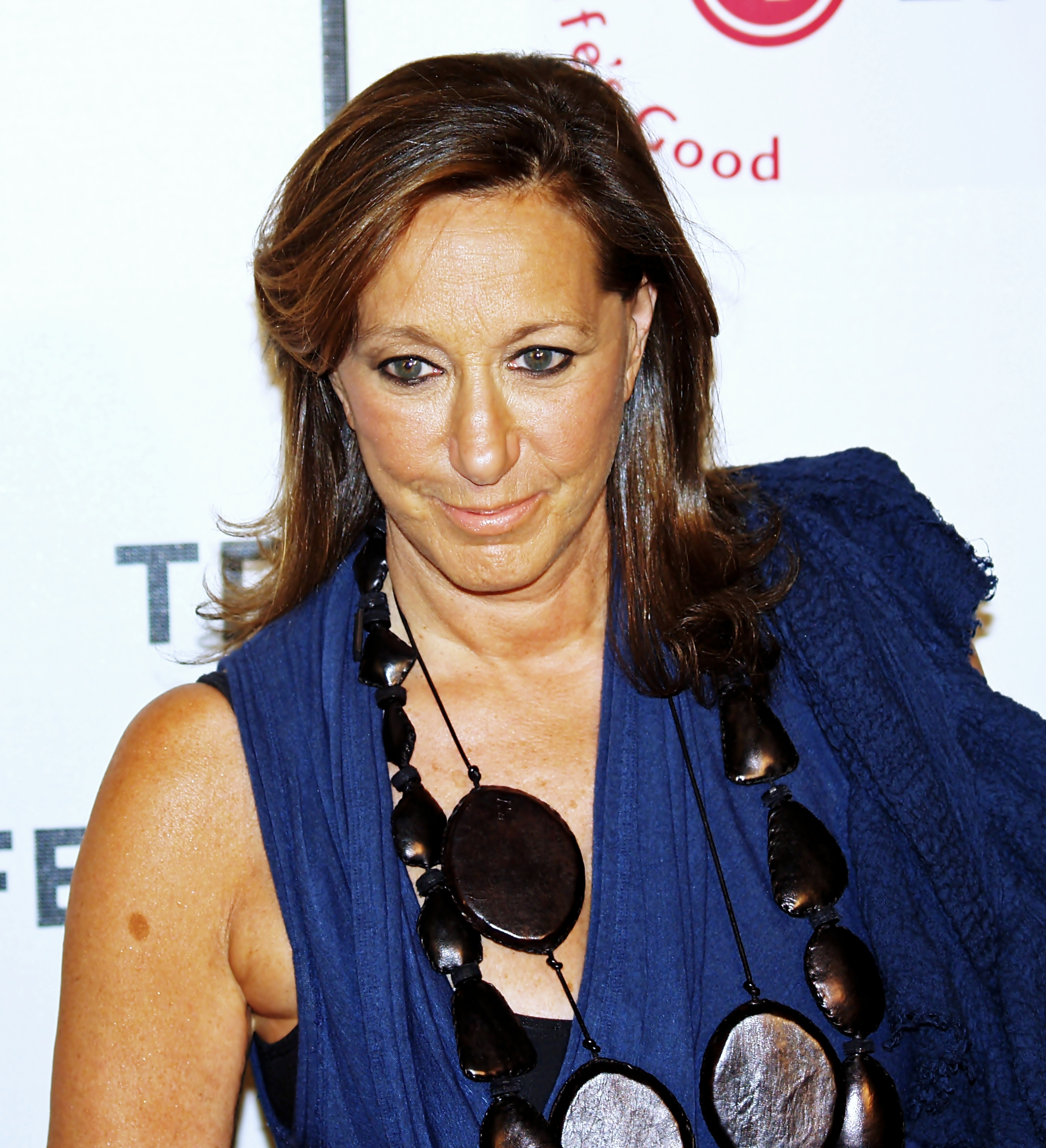 Donna Karan at the premiere of I Am Because We Are at the 2008 Tribeca Film Festival